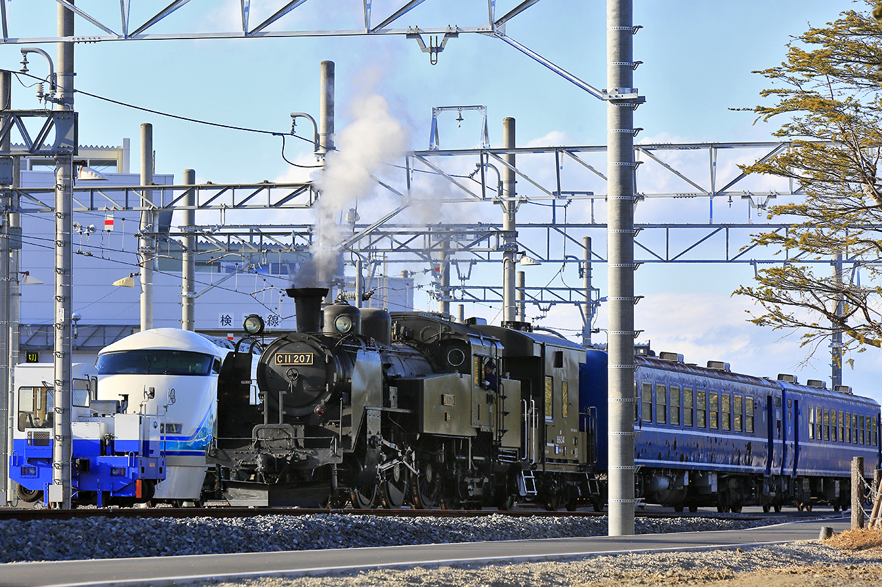 Class C11 steam locomotive C11 207 undergoing test running at Tobu Railway's Minami-Kurihashi Depot in Saitama Prefecture